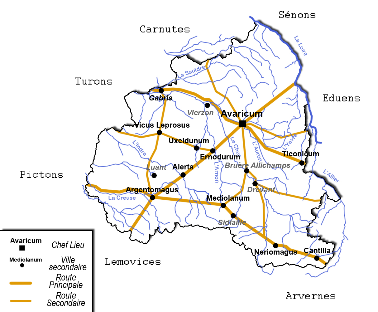 Territory of the gaulish tribe known as Bituriges Cubi. Frontiers, cities, roads and tribes around